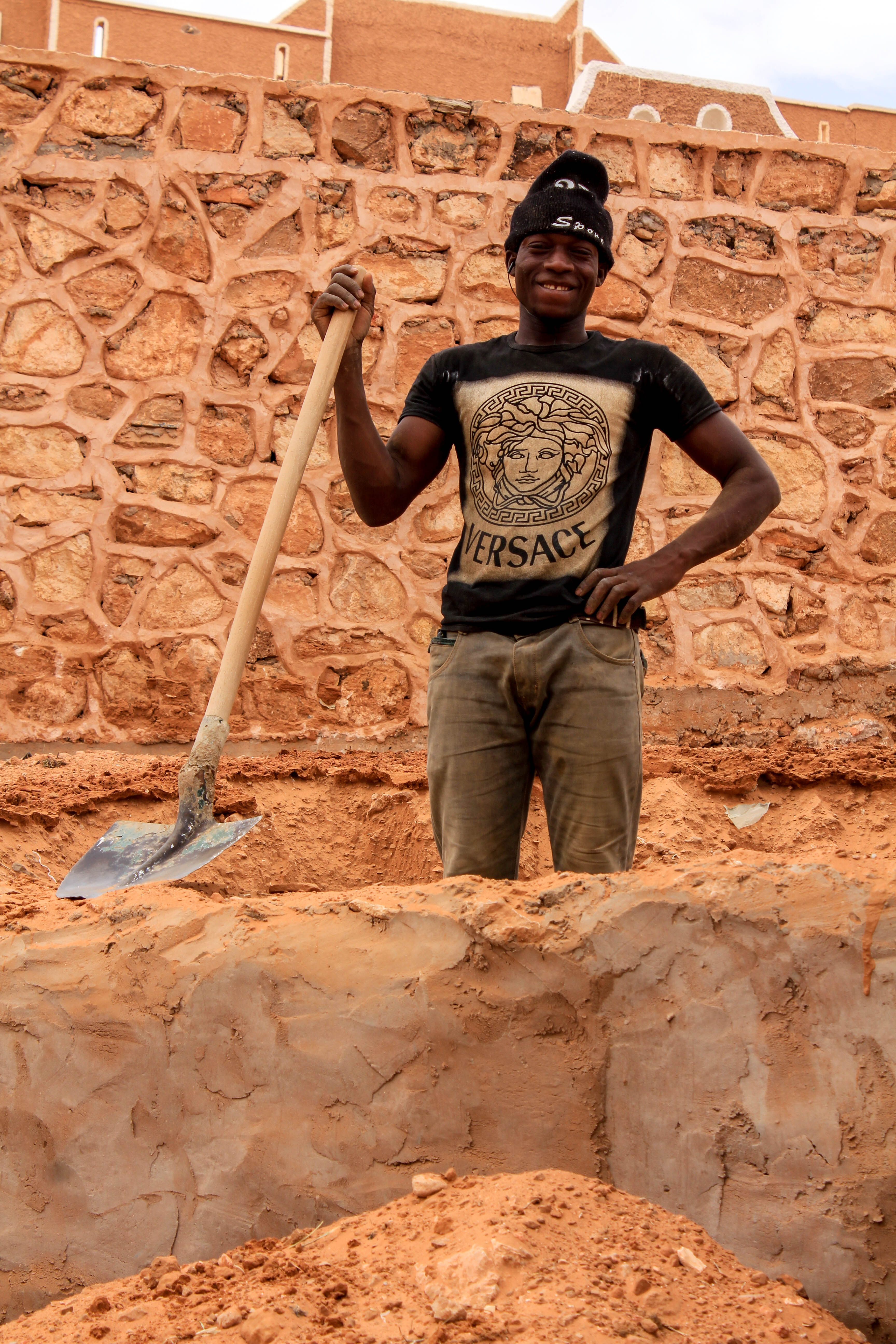 A hard working african builder with a big smile to the camera. An Illegal immigrant in a mission to either support his family or save money to immigrate to europ through the gates of the Algerian mediterranean. This is an image of "African people at work" from Algeria